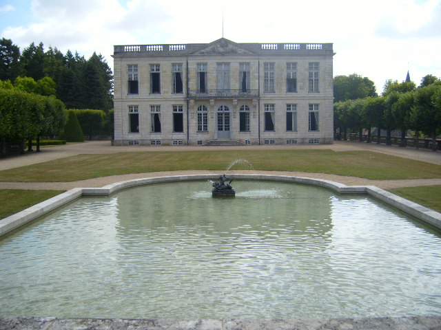 View of the Chateau de Bouges and its basin